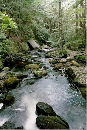 Eliza Adams Gorge, New Hampshire